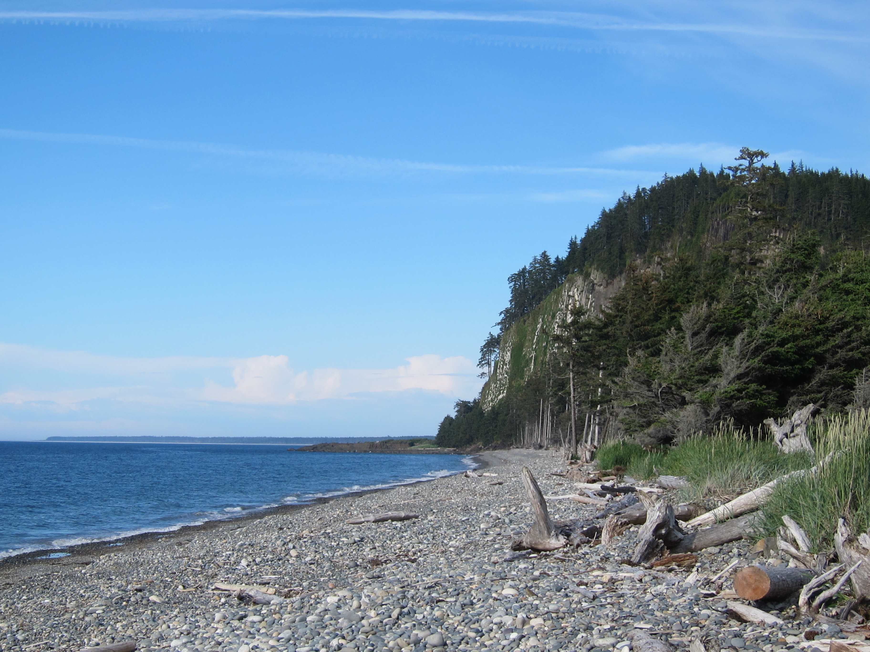 Tow Hill and North Beach, Naikoon Provincial Park, British Columbia